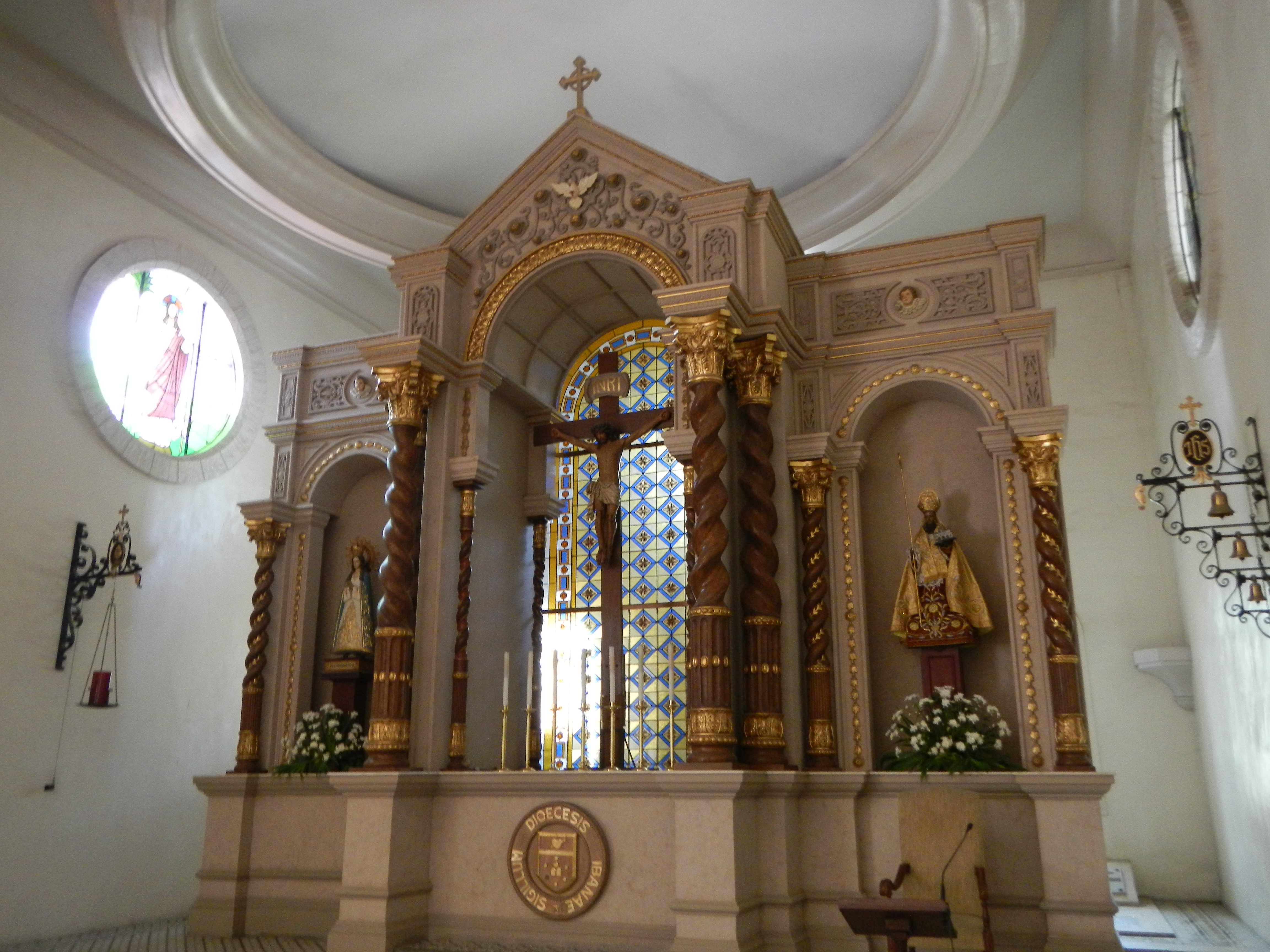 Cathedral of St. Augustine in Iba (F-1681), Iba 2201 Zambales Iba, Zambales[1] Titular: St. Augustine, Aug. 28 Parish Administrator: Fr. Josefino Bernardo Parochial Vicars: Fr. Arwin E. Ysonza, Fr. Rodel Ignacio Director, St. Augustine’s School: Fr. Daniel O. Presto San Andres Vicariate Vicar Forane: Fr. Ernesto C. Raymundo [2] Population: 29,112; Catholics: 24,468 Parish Priest: Rev. Fr. Apolinario VL Lezada Parochial Vicar: Rev. Fr. Ceferino Añez It belongs to the Roman Catholic Diocese of Iba[3] [4] [5] [6] [7] St. Augustine Cathedral (Diocese of Iba) ZONE IV MAGSAYSAY AVENUE Coordinates: 15°19'33"N 119°58'47"E[8]ugustine of Hippo (pron.: /ɔːˈɡʌstɨn/ or /ˈɔːɡəstɪn/; Latin: Aurelius Augustinus Hipponensis; 13 November 354 – 28 August 430), also known as St Augustine, St Austin,[4] or St Augoustinos, was a Father of the Church whose writings are considered very influential in the development of Western Christianity and philosophy. He was bishop of Hippo Regius (present-day Annaba, Algeria) of the Roman province of Africa.[9]List of cathedrals in the Philippines - The Cathedral of Iba, also known as the Cathedral of Saint Augustine, is the seat of the Roman Catholic Diocese of Iba. The church of the diocese is a 17th century Baroque church built by the Augustinian Recollects. It is located adjacent to the Provincial Capitol Building. The current bishop of the diocese is the Reverend Florentino G. Lavarias, D.D..[10]